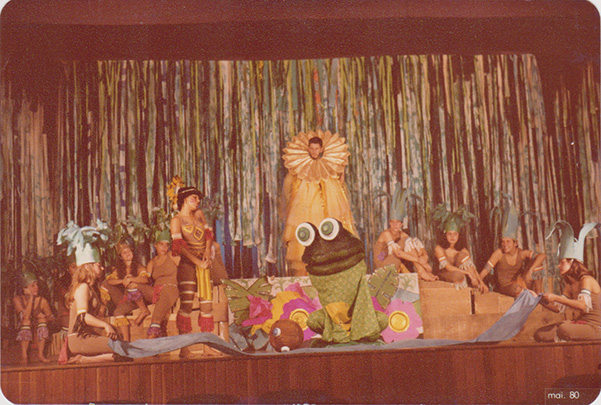 "Guairaká" (1980) é a primeira peça infantil original do Grupo Divulgação.